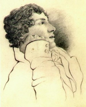 Portrait of romantic poet John Keats (1795-1821).